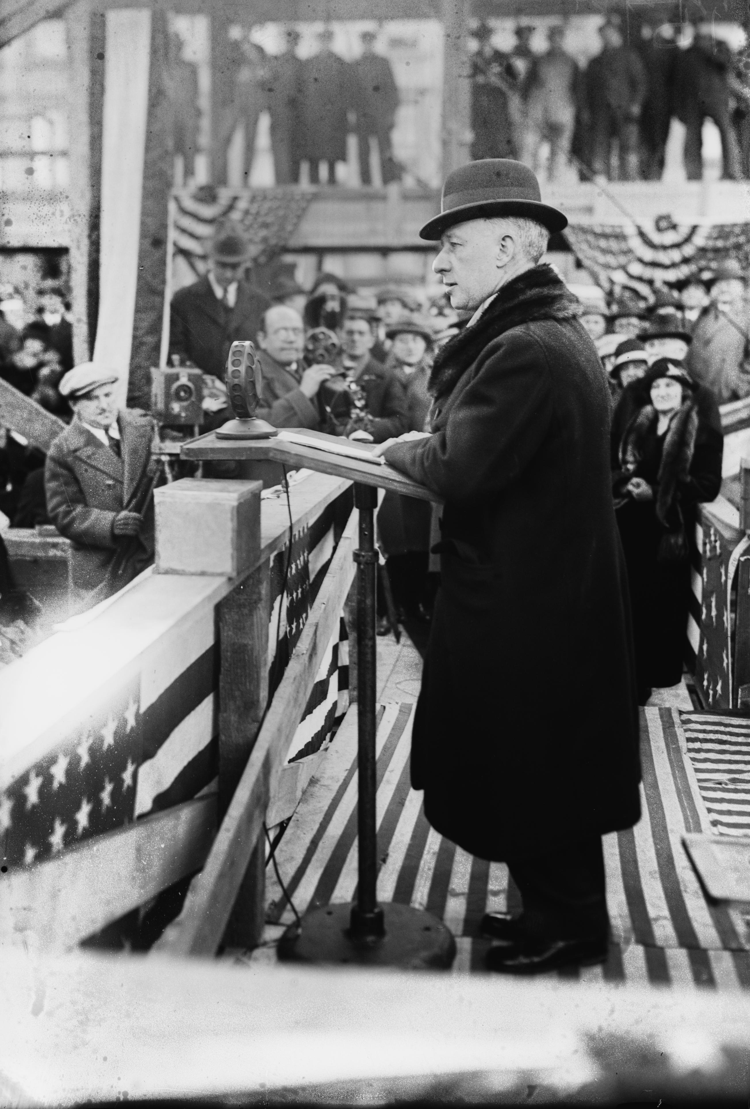 Governor Al Smith speaking before a crowd. Smith is standing, wearing a winter coat and derby hat. A microphone is in front of him. To front is a man with a large format camera on a tripod (probably a news photographer); further back a motion picture camera can be seen.